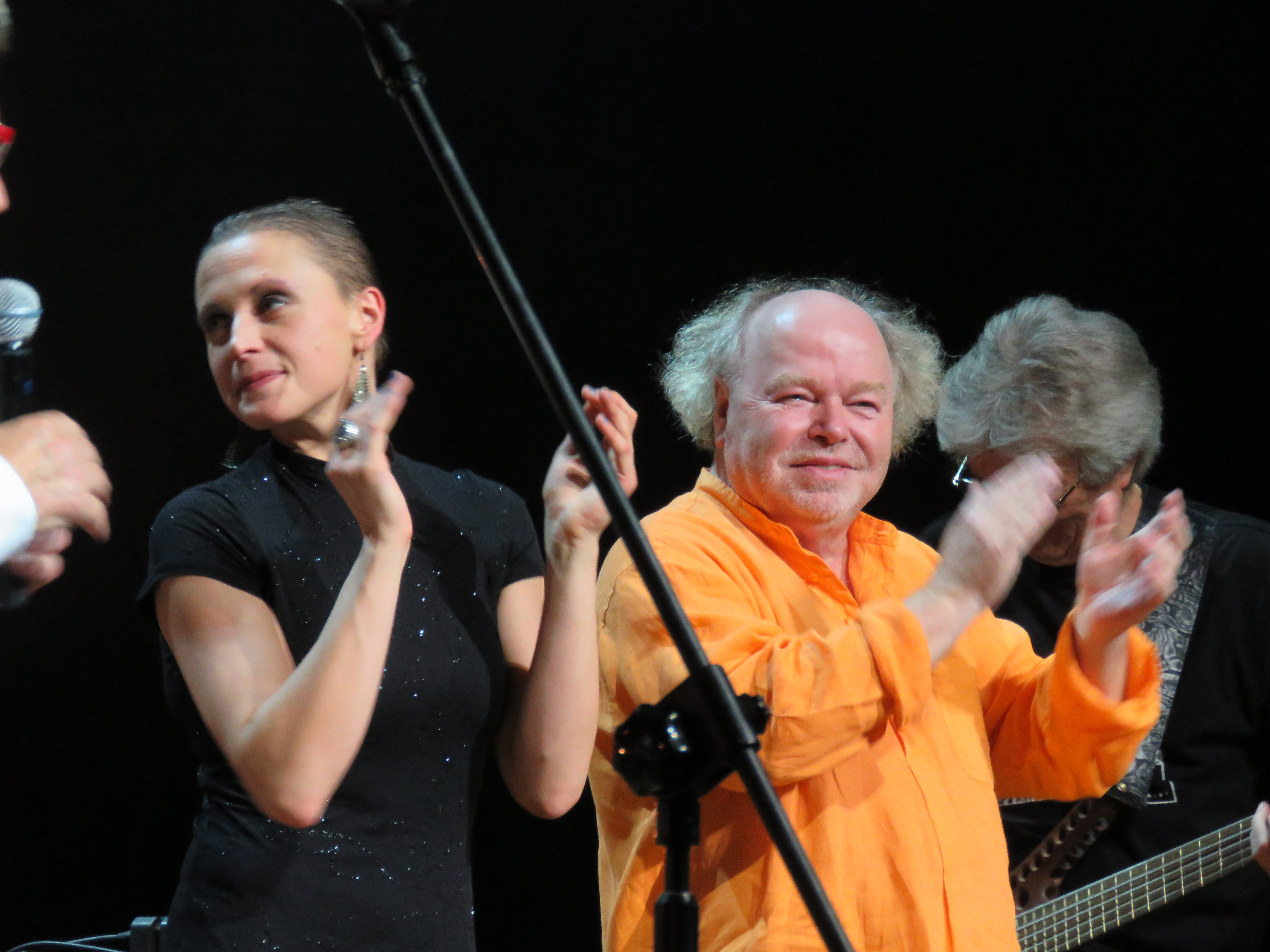 Natalia Sikora (b. April 22, 1986 in Słupsk, Poland) – Polish rock singer and actor, and Stanisław Wenglorz (b. August 22, 1950) – Polish rock singer, vocalist of Budka Suflera and Skaldowie.